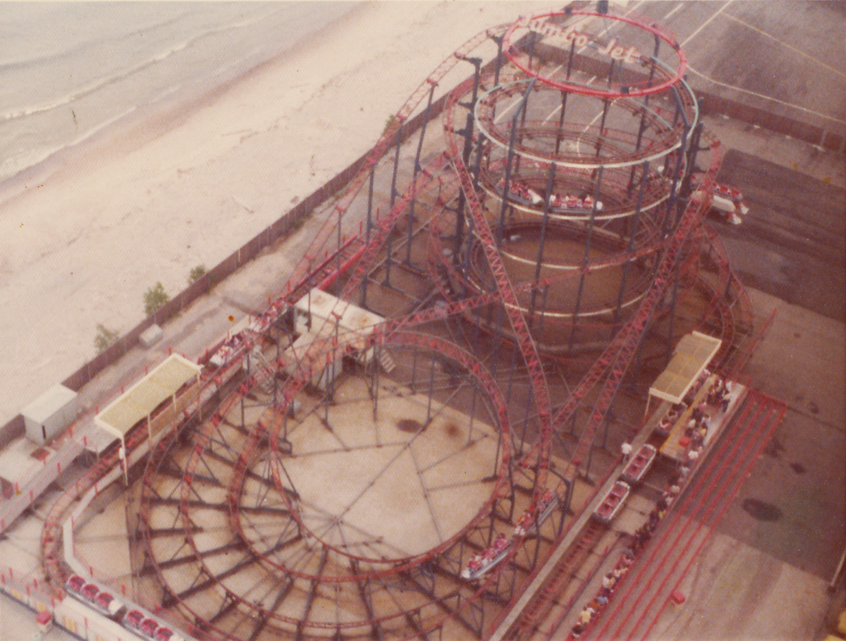 An aerial photograph of the Jumbo Jet roller coaster at Cedar Point in Sandusky, OH. Taken in July, 1973.